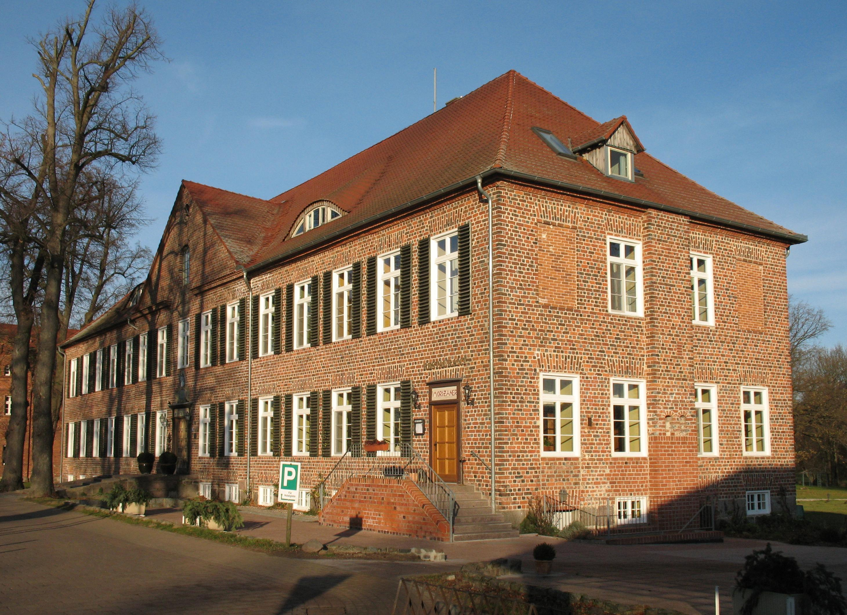 Manor in Ludorf in Mecklenburg-Western Pomerania, Germany